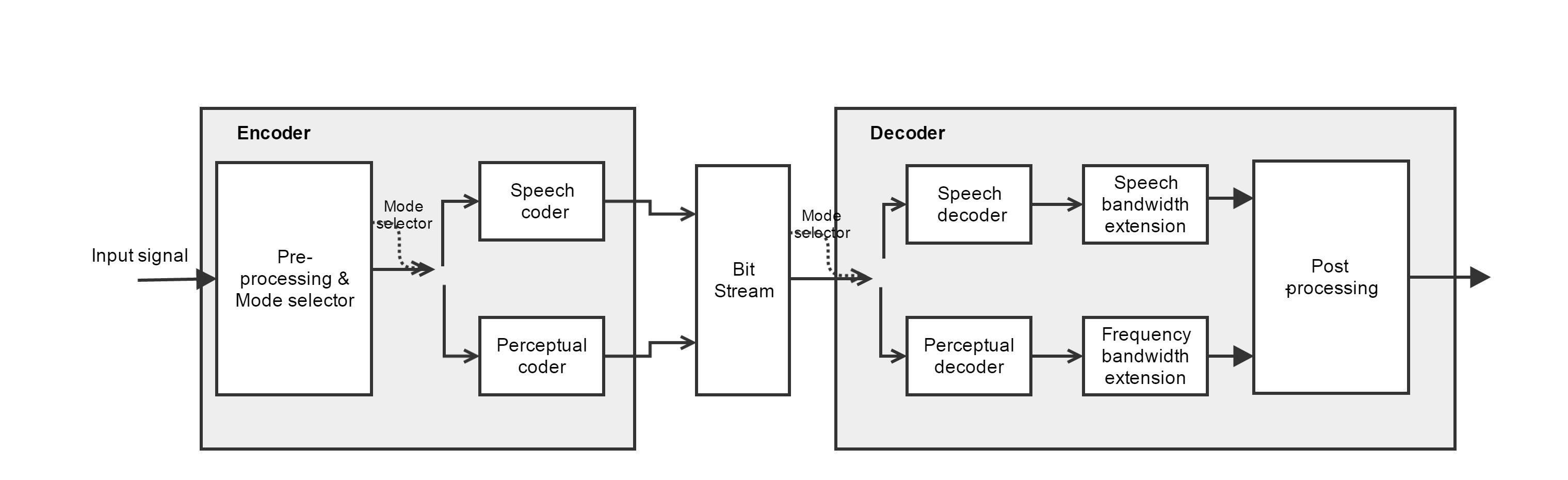 EVS decoder/encoder block diagram